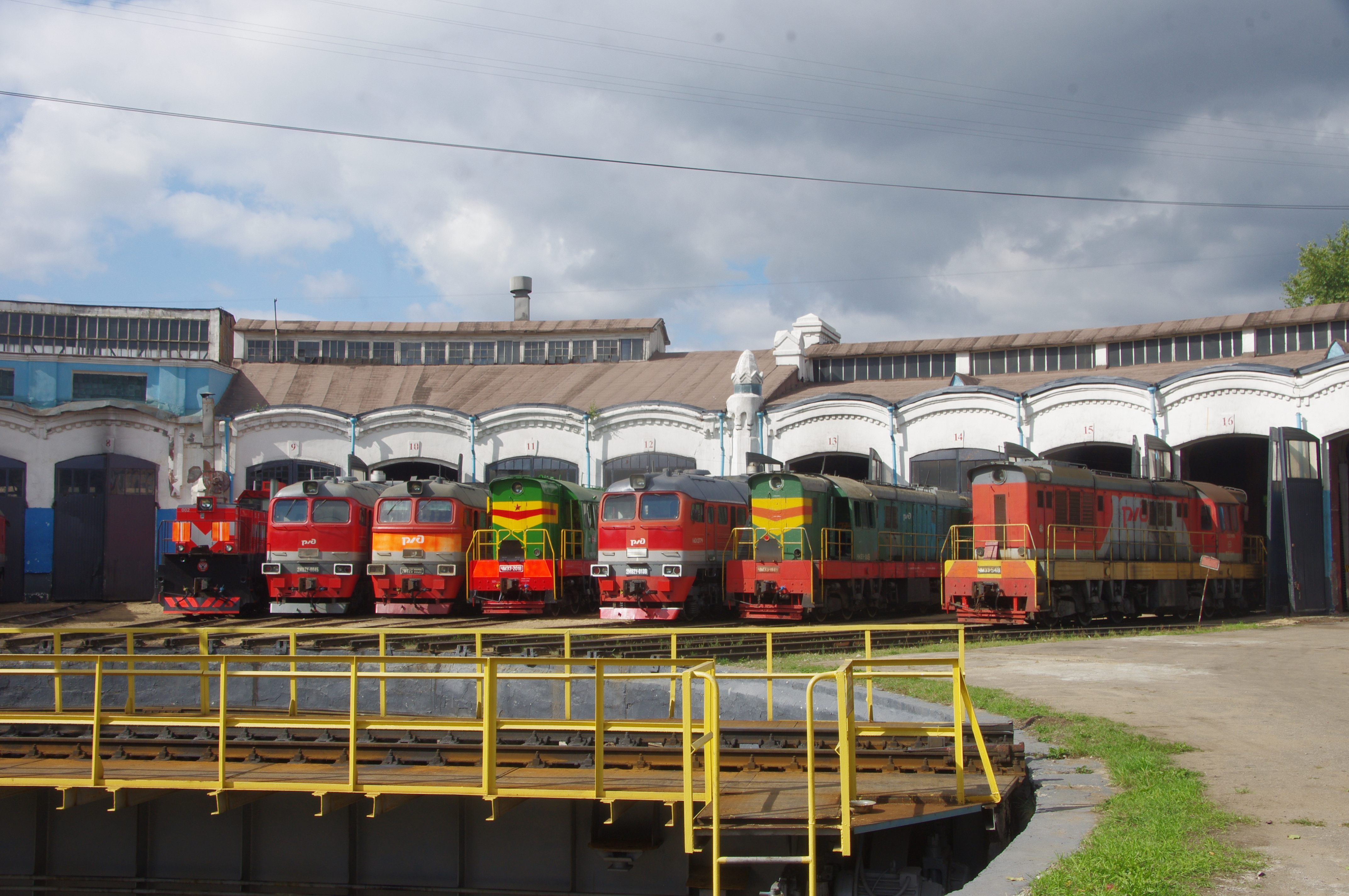 Likhobory station, Moscow